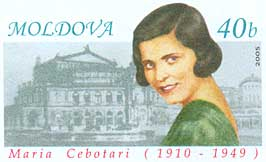 Stamp of Moldova